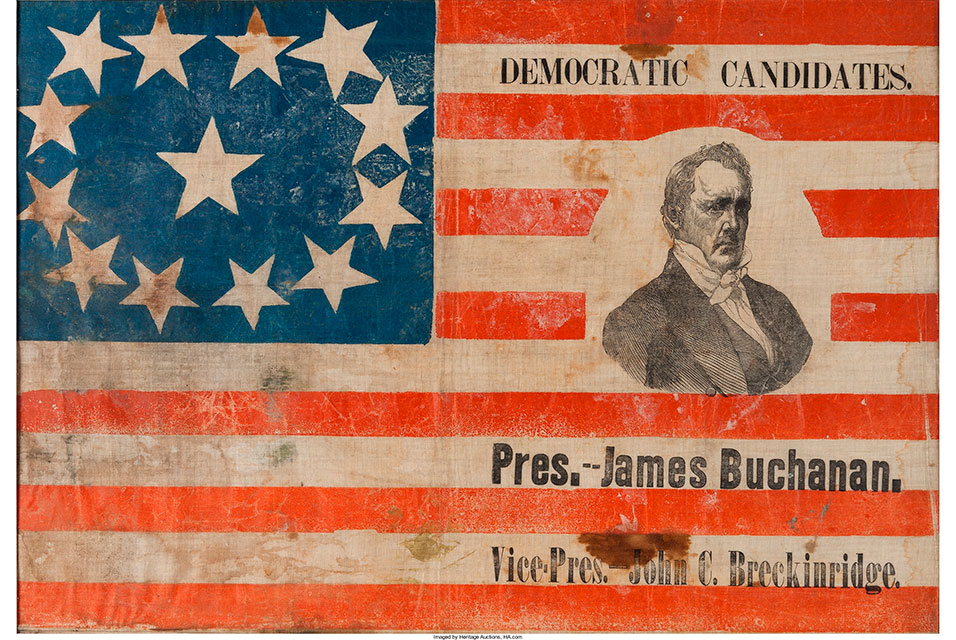 James Buchanan campaign flag, 1856